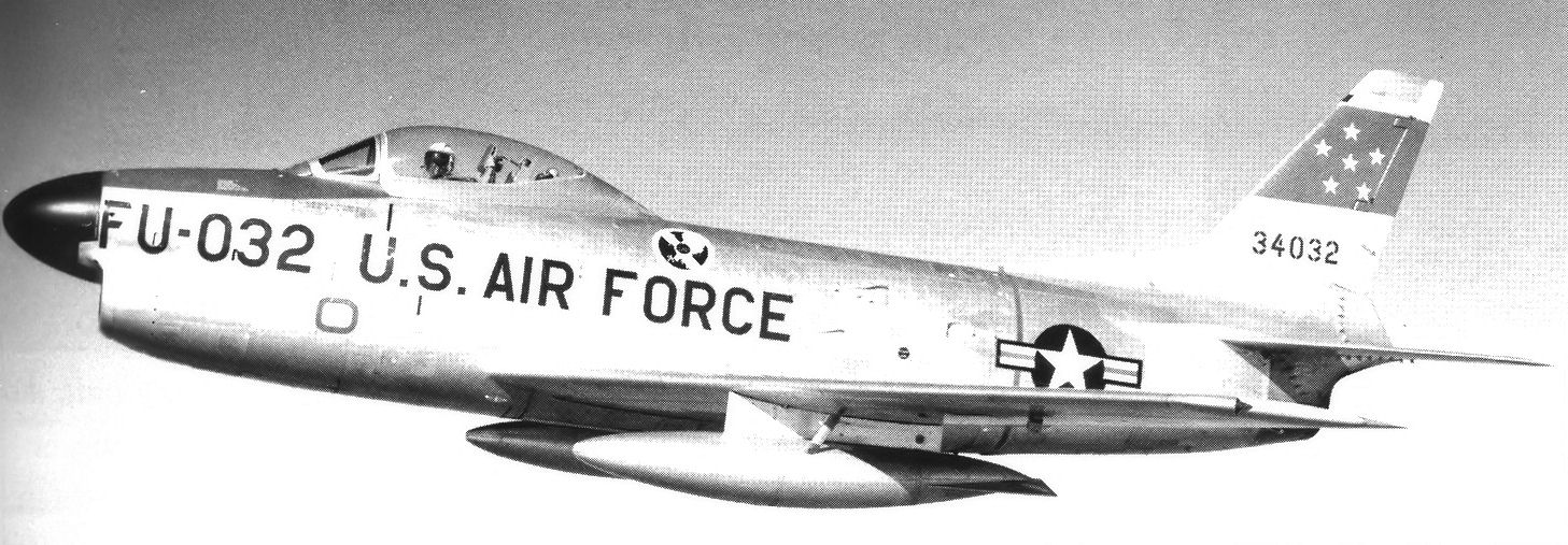 323d Fighter-Interceptor Squadron North American F-86D-60-NA Sabre 53-4032 1954 Larson AFB WA